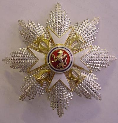 Star of the Order of St. Olav, Grand Cross. Norway.